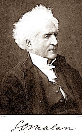 Portrait photo by Solomon Caesar Malan